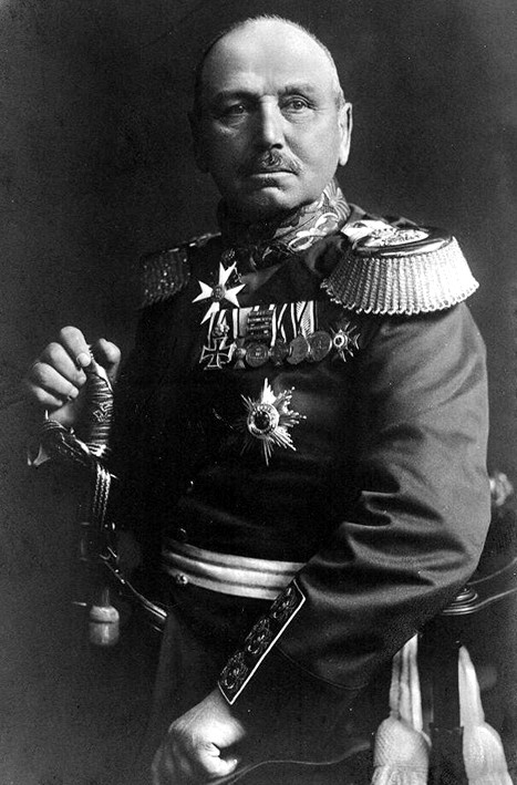 Private photograph of Alexander von Kluck.